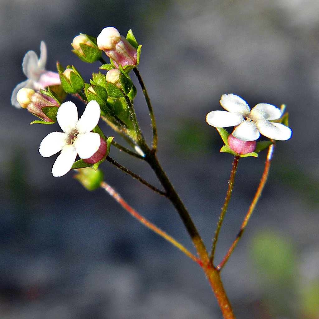 Limewater Brookweed (Samolus ebracteatus) a.k.a. Water Pimpernel growing along a path at Sweetbay Natural Area, Palm Beach County, Florida.